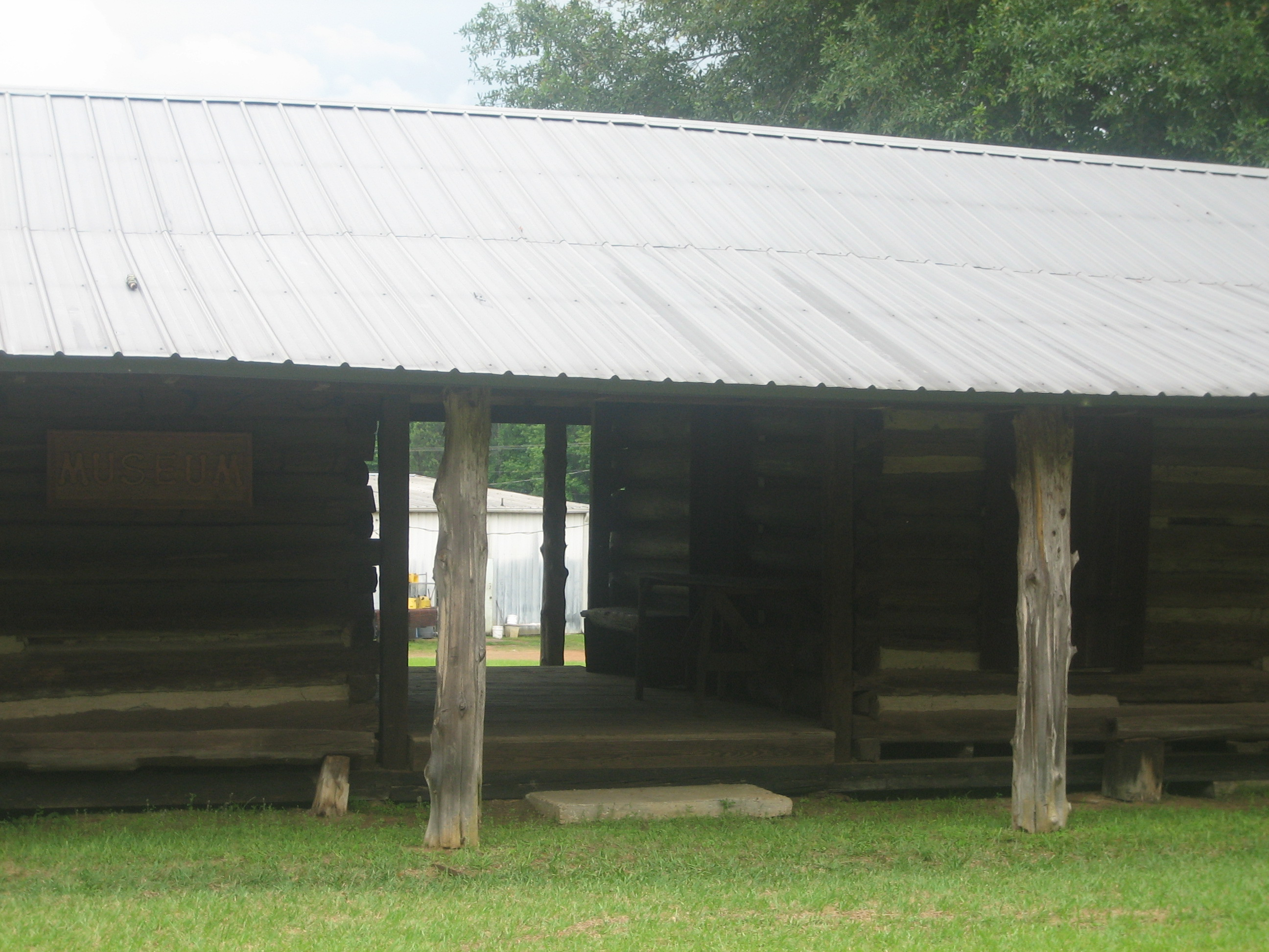 I took photo on May 22, 2009.